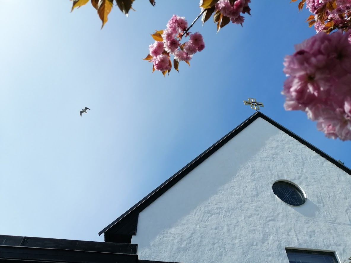 Husbykyrkan i Kista, Stockholm